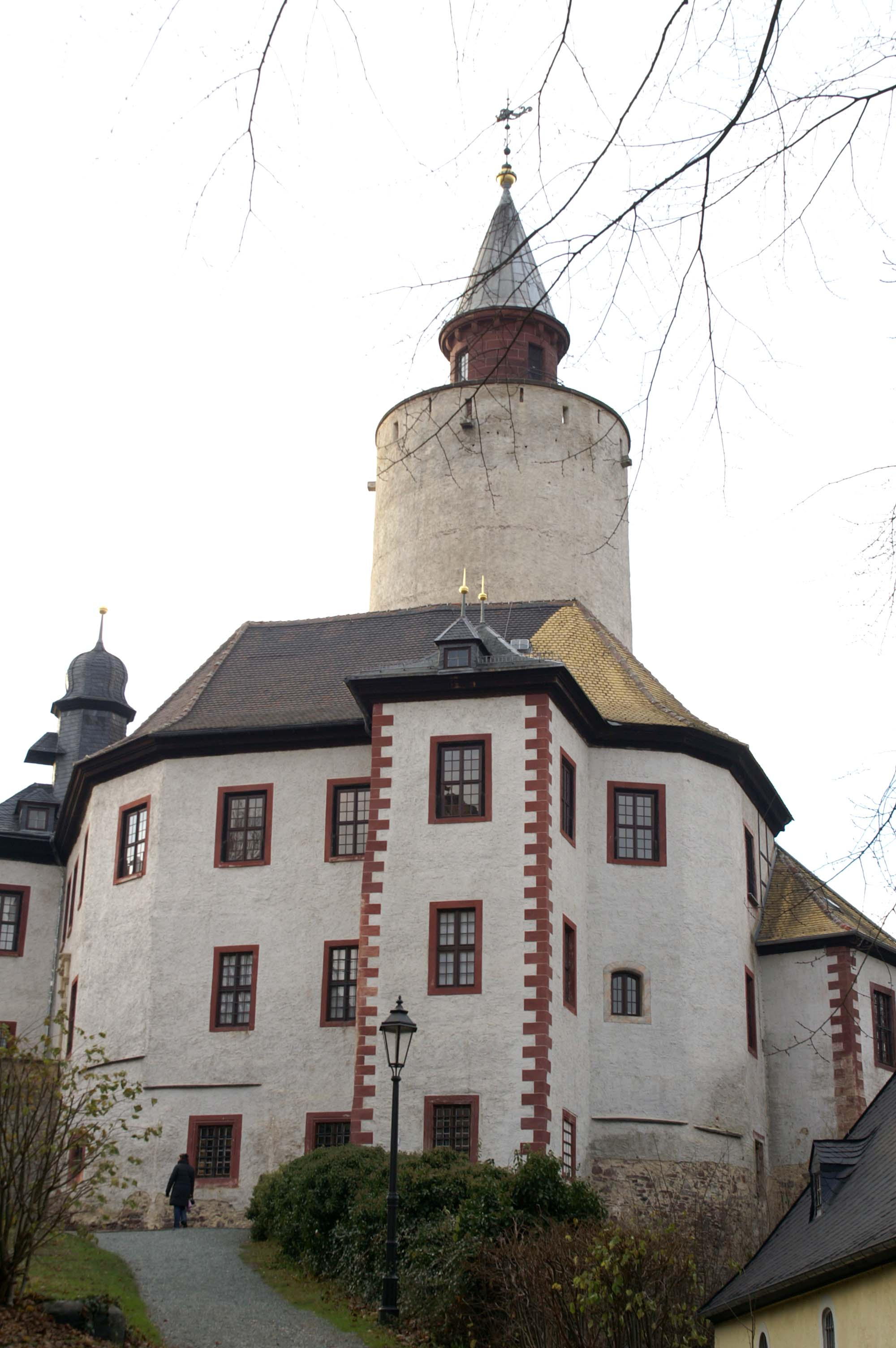 Castle in Posterstein near Schmölln, Germany